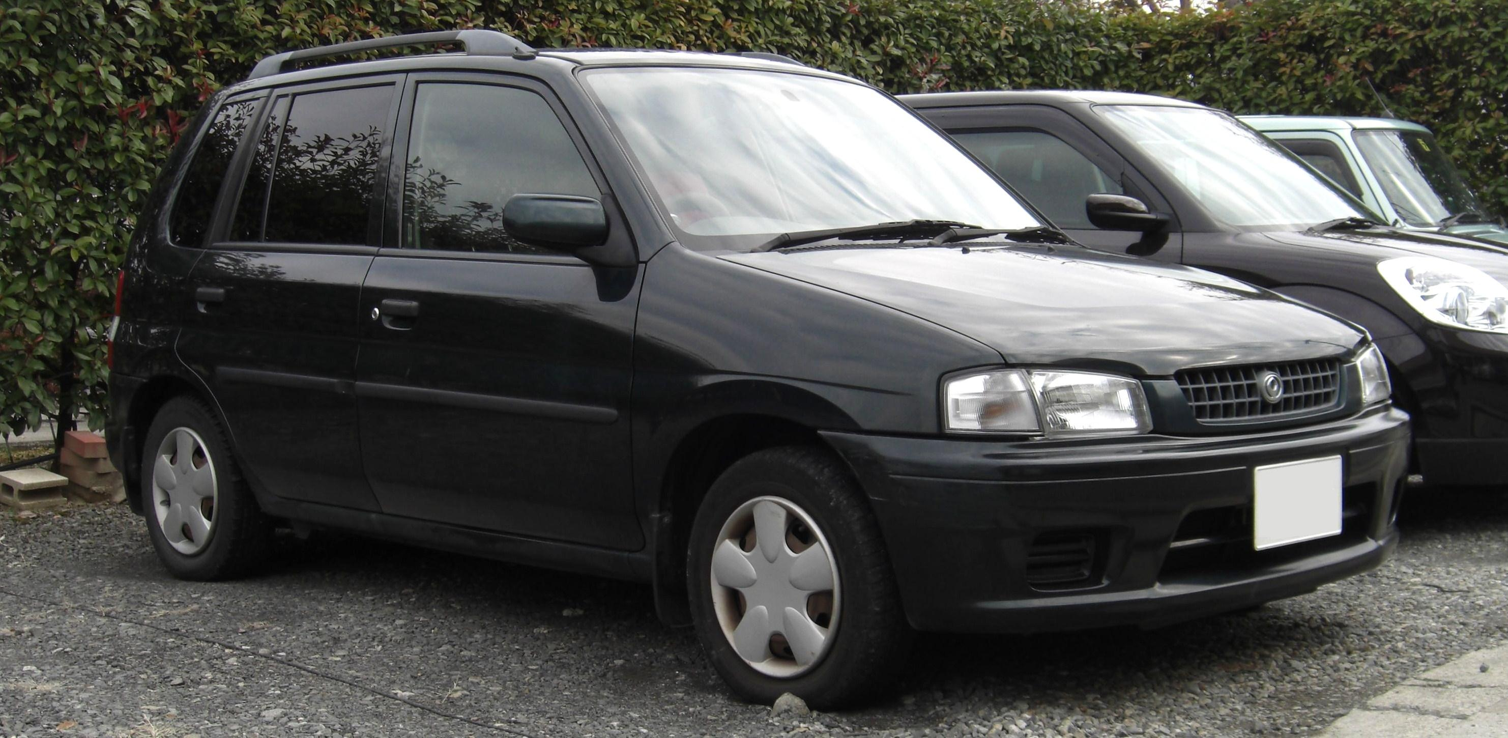 Mazda Demio in Japan